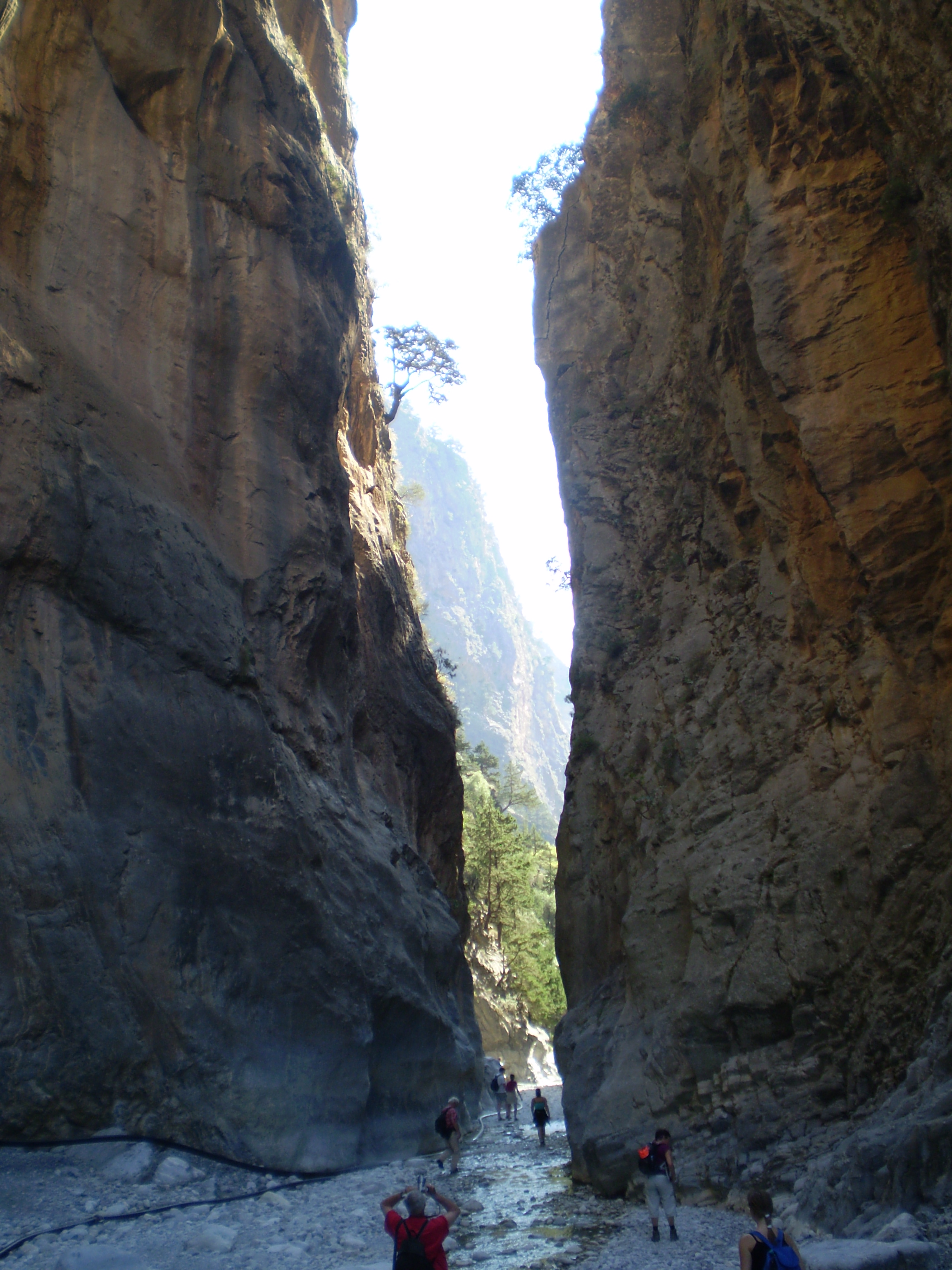 Samaria Gorge